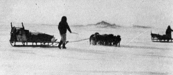 Photograph by Frederick Cook, which he claimed showed Bradley Land.